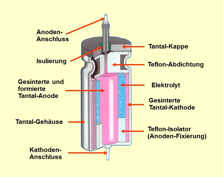 Cross section of a non-solid (wet) axial ""all tantalum"" electrolytic capacitor